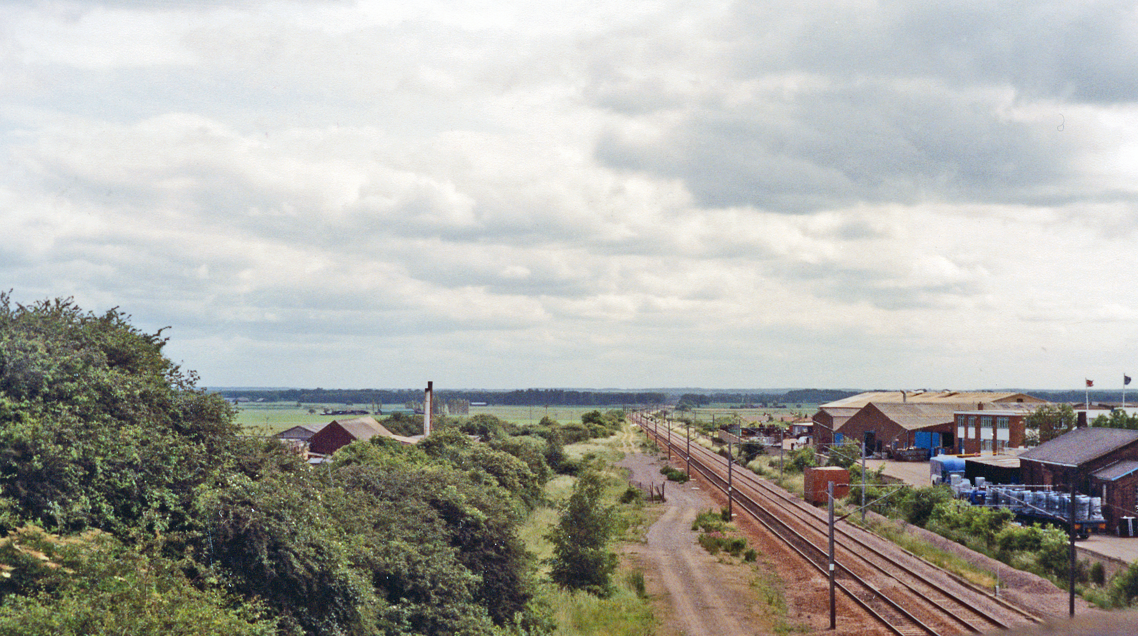 Site of Yaxley & Farcett station, East Coast Main Line 1992. View southward from the B1091 bridge, towards Hitchin and London: ex-GNR King's Cross - Doncaster section of the ECML, electrified as far as Peterborough in 1987. The station here was closed 6/4/59 (goods 1/11/65)